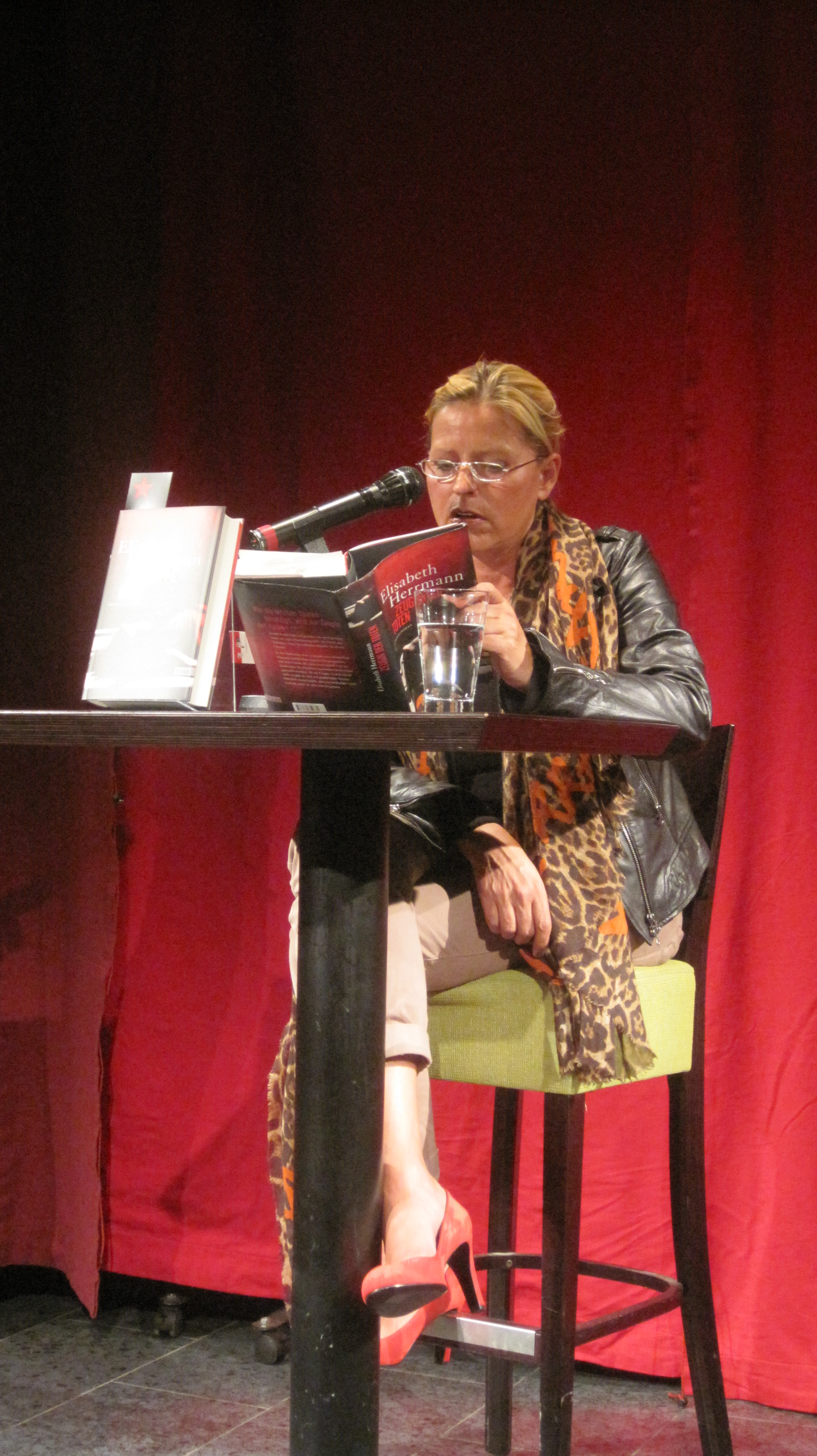 German writer Elisabeth Hermann 2011.